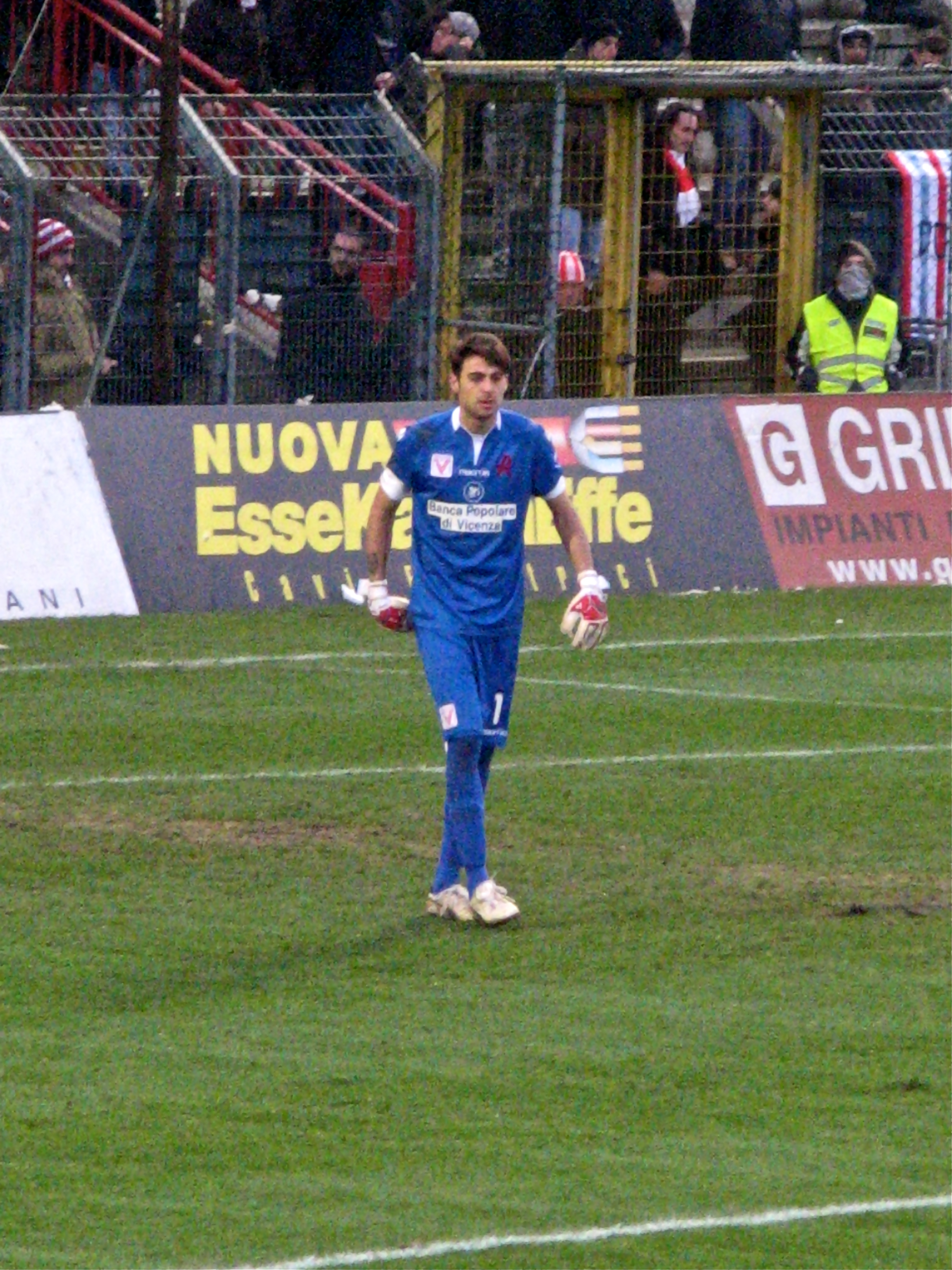 The Italian football goalkeeper Carlo Pinsoglio playing for Vicenza in 2012-13 serie B season